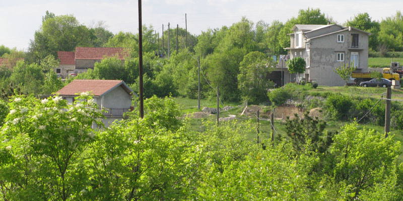 Gardun near Trilj, Croatia - view from the graveyard